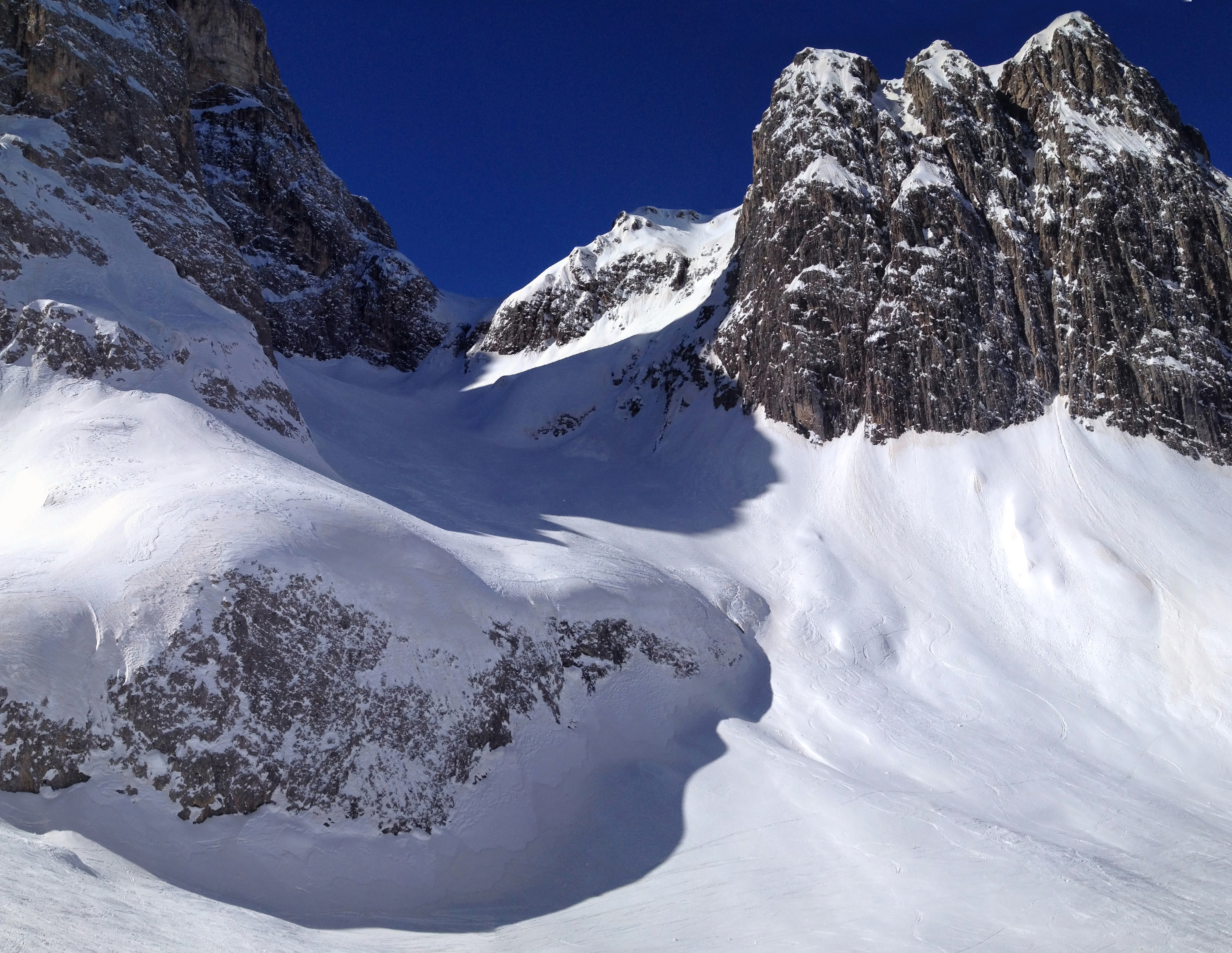 The "Val de Bosli" valley from the Mittagstal (Ladin: Val de Mesdì) on the Sella in the Dolomites, South Tyrol.